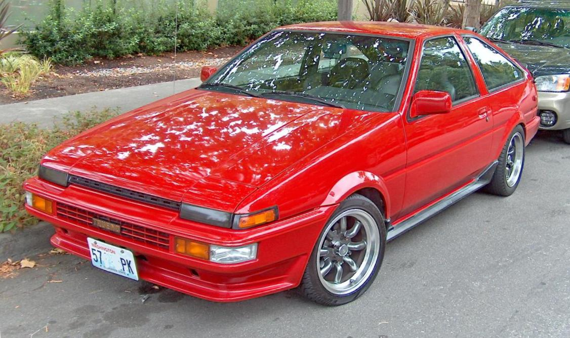 This Is The AE86 Trueno! The best car in the world! "Sprinter Trueno" badged AE86 Corolla